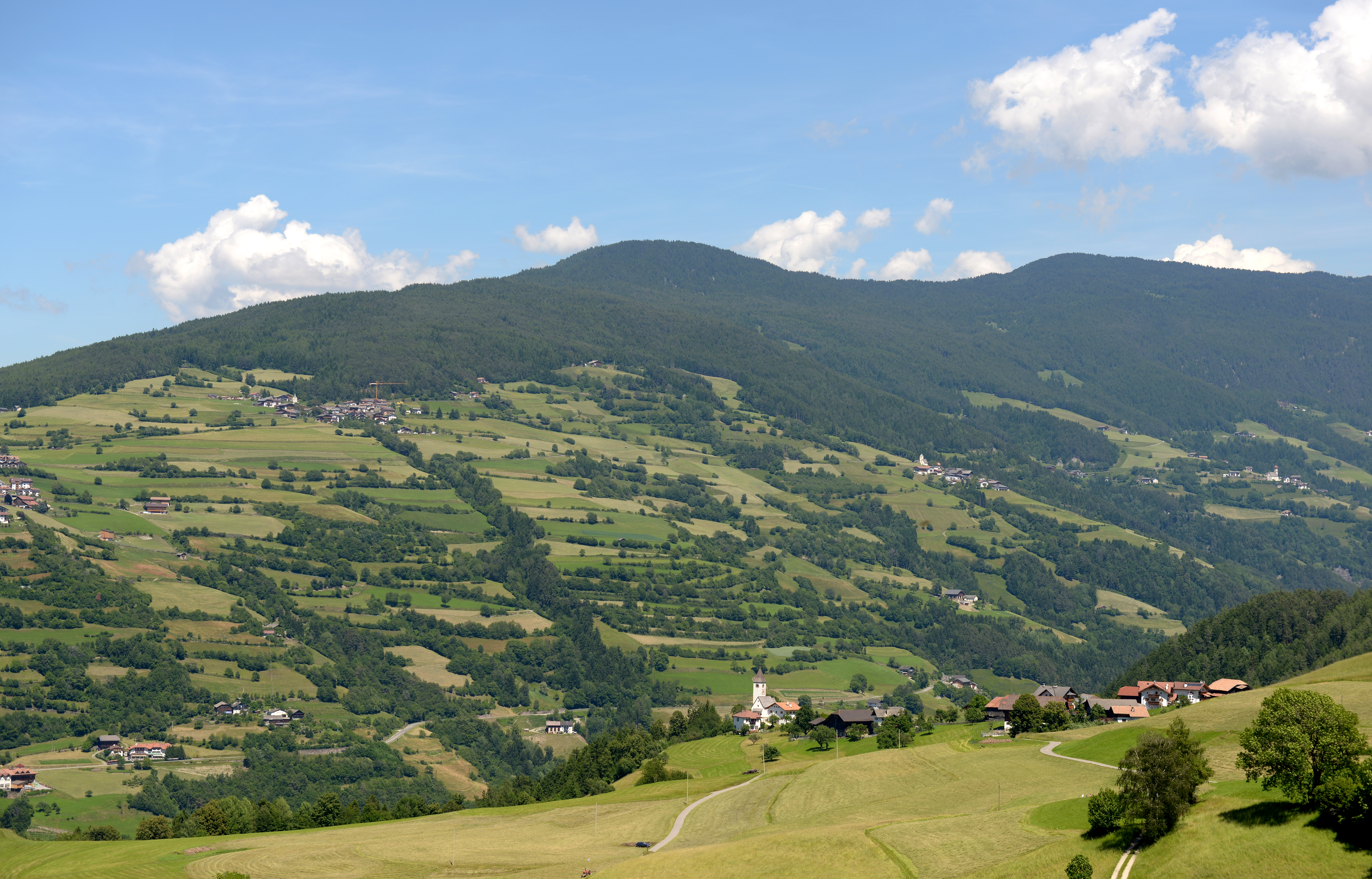 The church Saint Magdalena in Tagusens Kastelruth